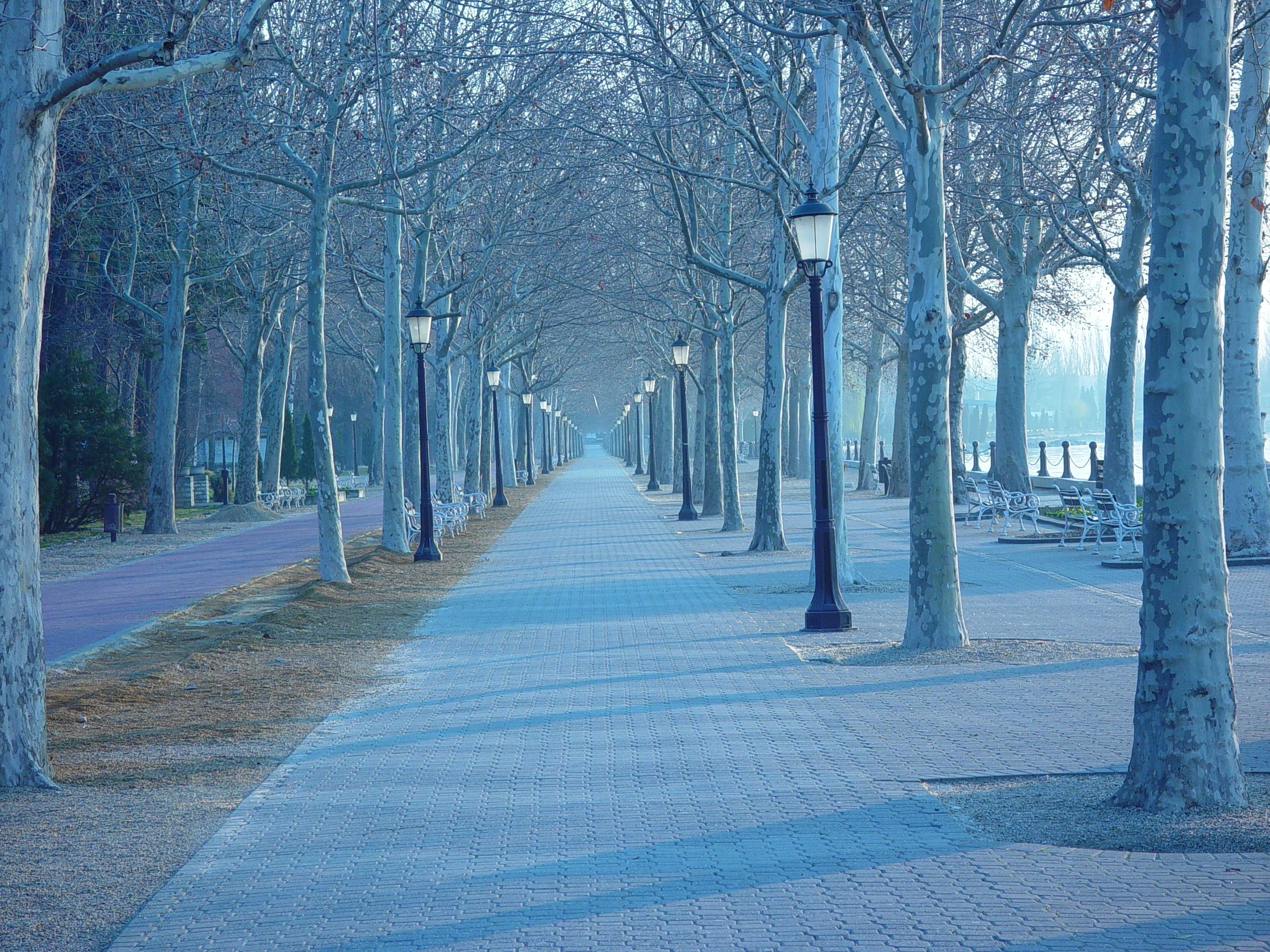 Balatonfüred, Tagore promenade